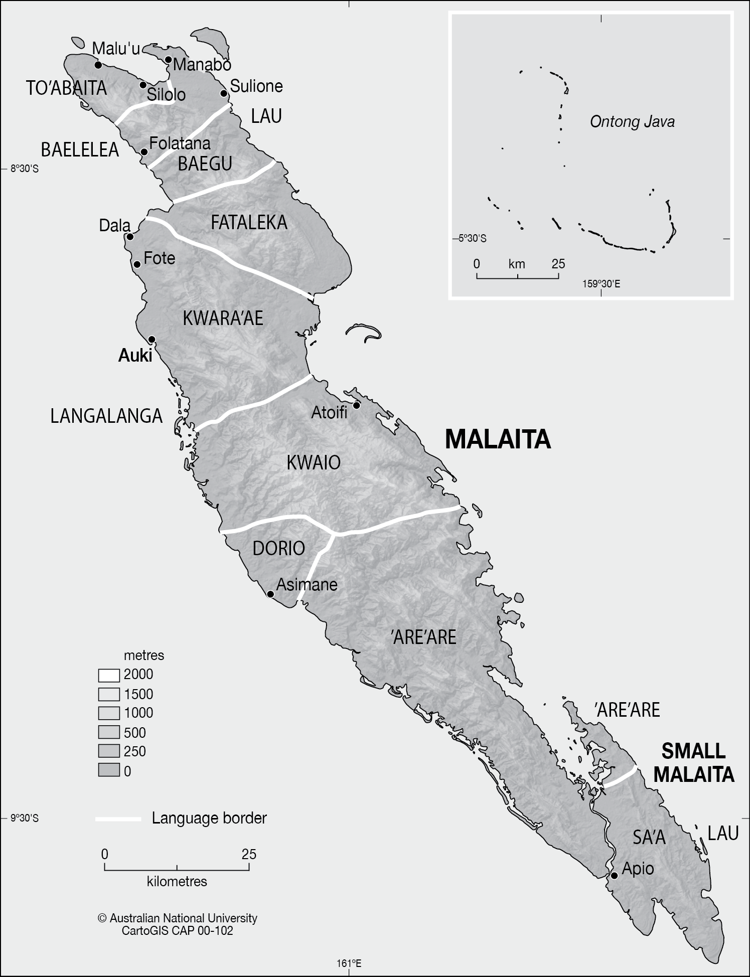 Languages of the island of Malaita, including Maramasike or Small Malaita, Solomon Islands, Pacific Ocean, showing language names, borders and select settlements